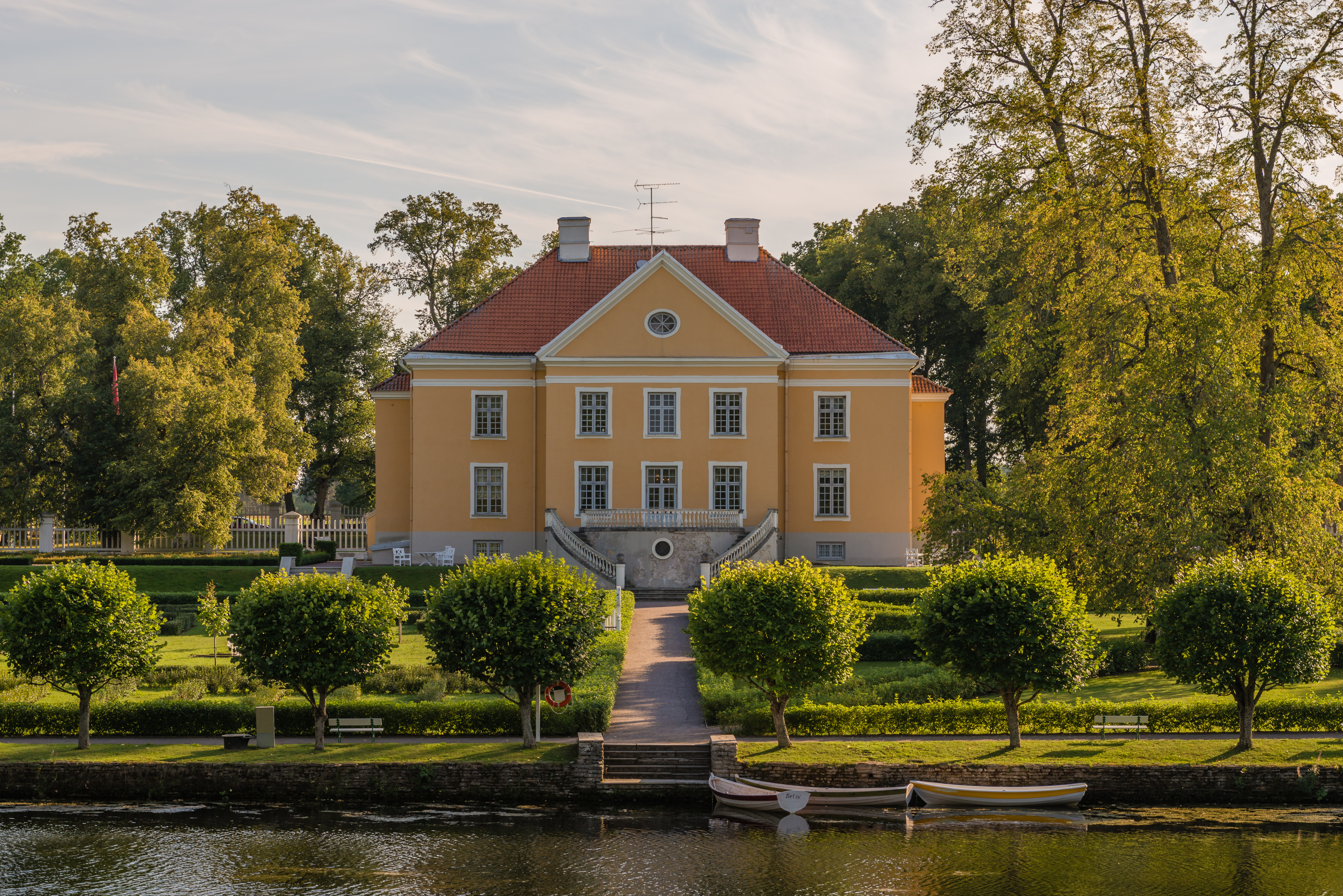 Palmse manor house